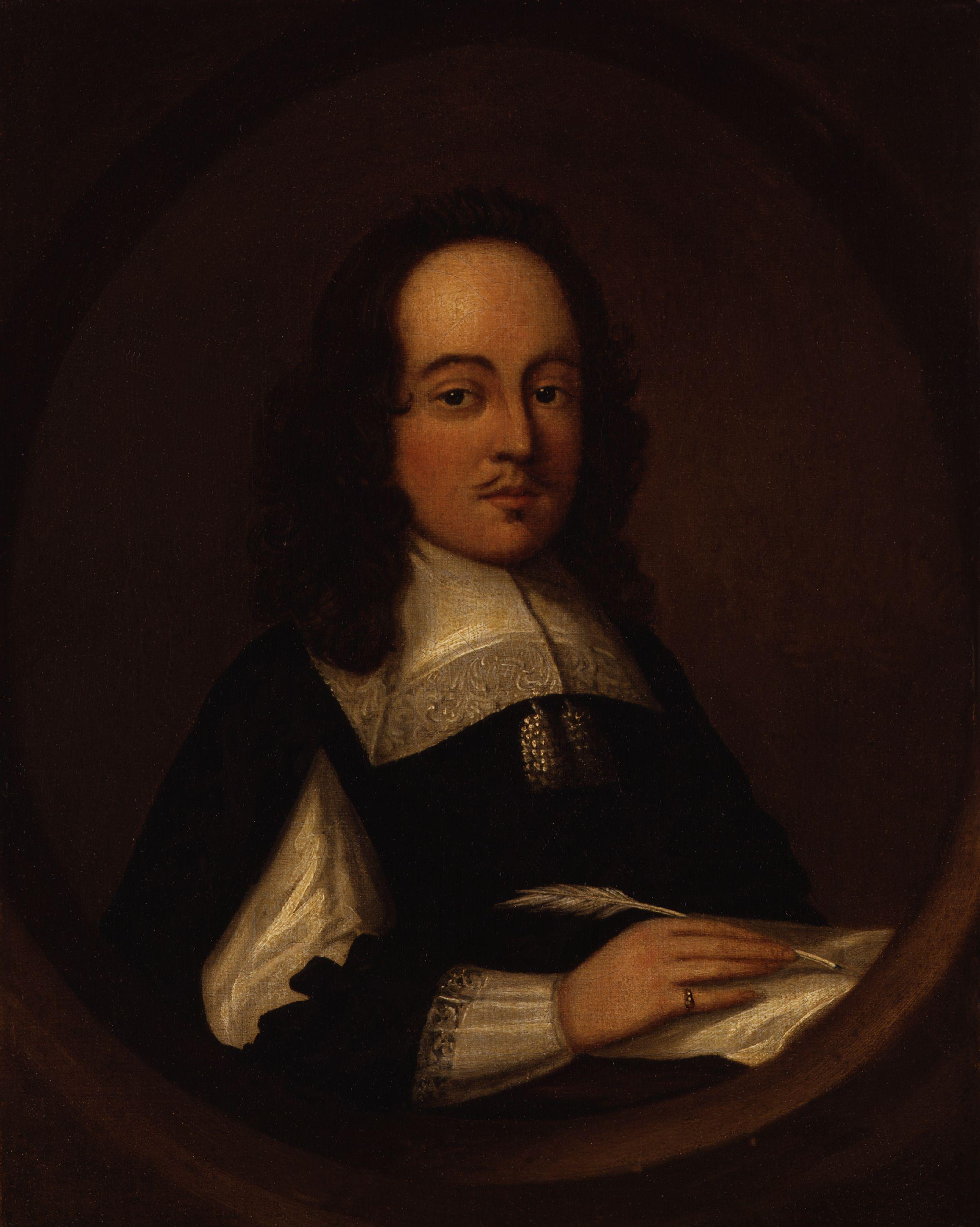 Edward Cocker, by Richard Gaywood (floruit 1644-1668). All images in this batch have a known author with unknown death date, but according to the NPG's website the author was floruit (known to be active) prior to 1859, and so is reasonably presumed dead by 1939.